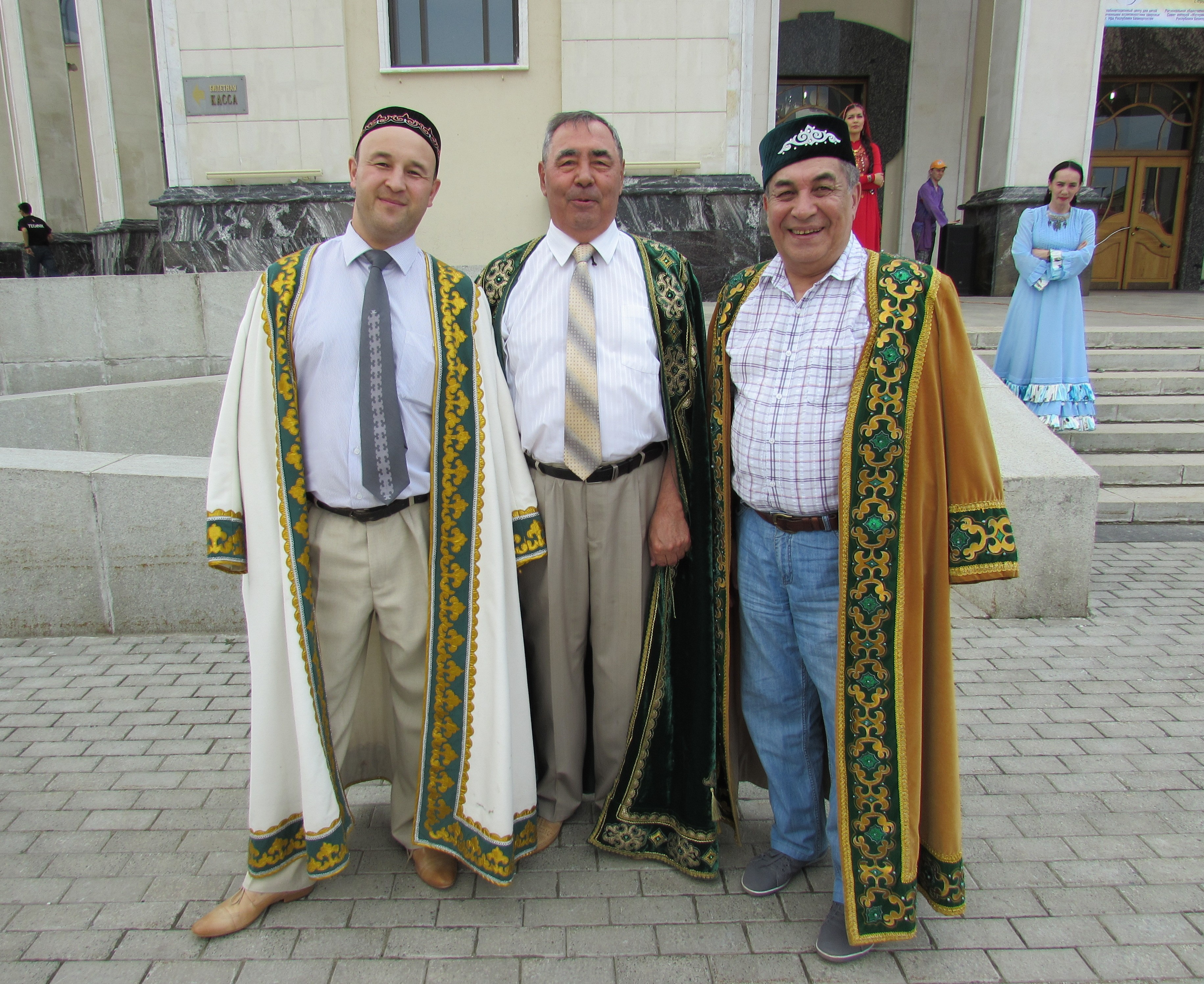 Holiday Bashkir national costume